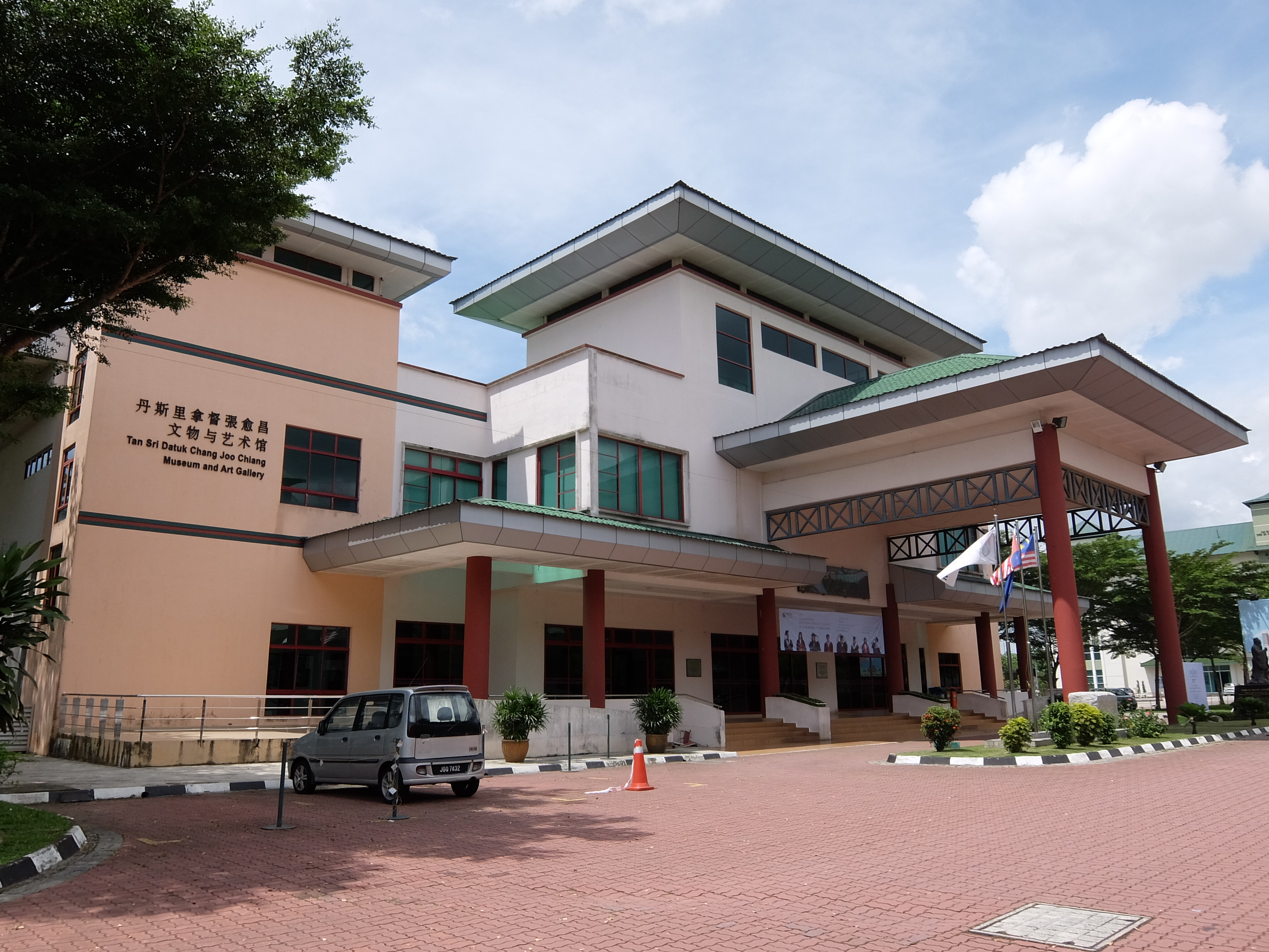 Tan Sri Datuk Chang Joo Chiang Museum and Art Gallery, Southern University College, Skudai, Iskandar Puteri, Johor, Malaysia